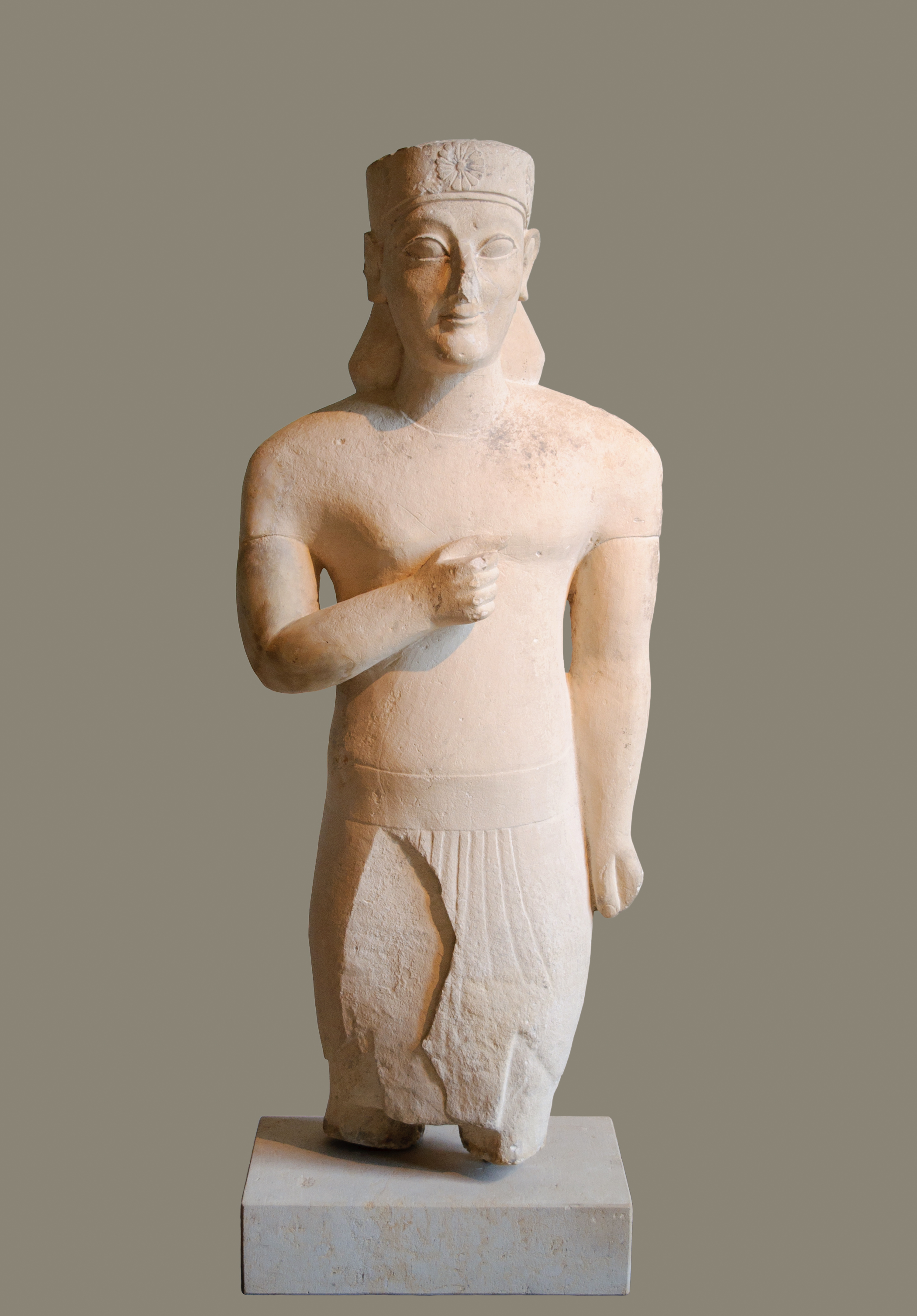 The statue originates from the ancient city of Idalion, nowadays nearby the village of Dali in Cyprus.